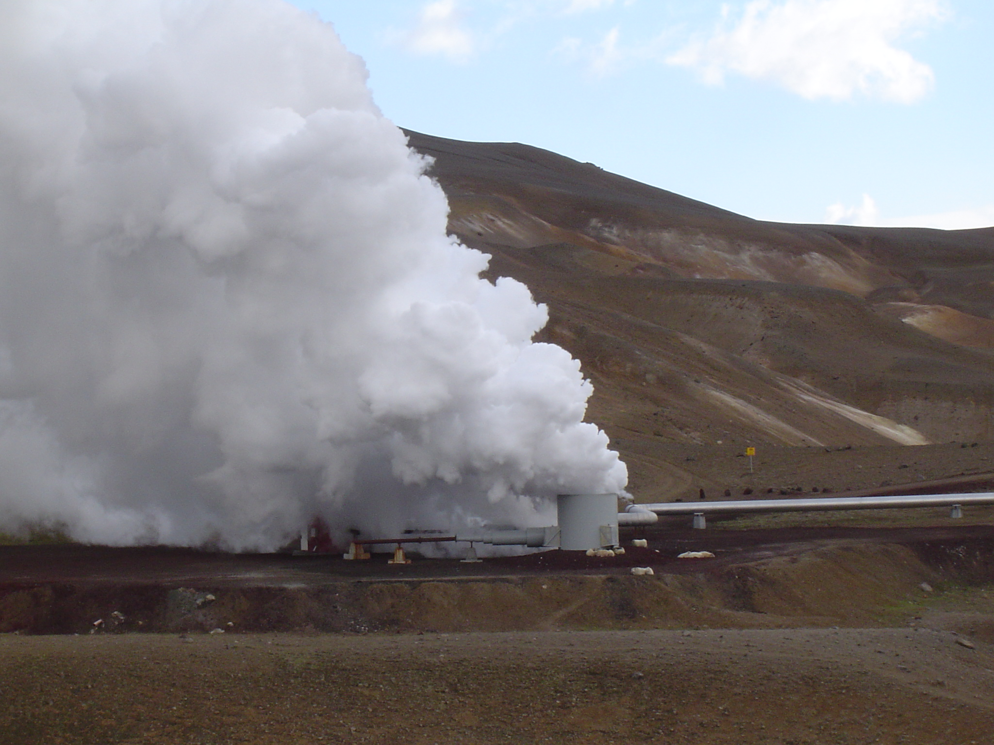 Part of Krafla power Plant in Iceland